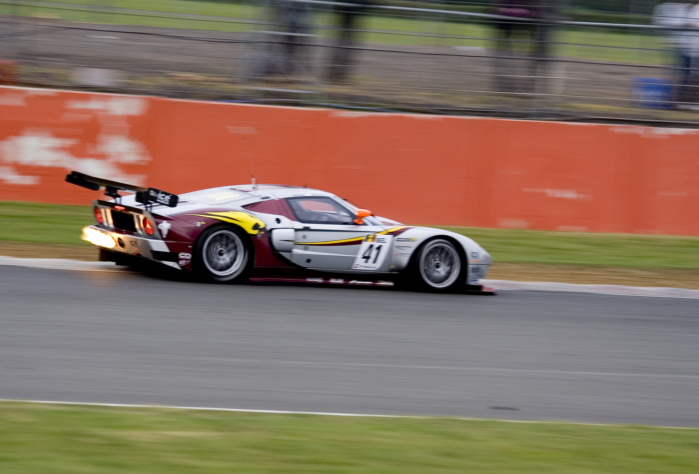 FIA GT1 Qualifying Race - Ford GT (Marc VDS Racing)